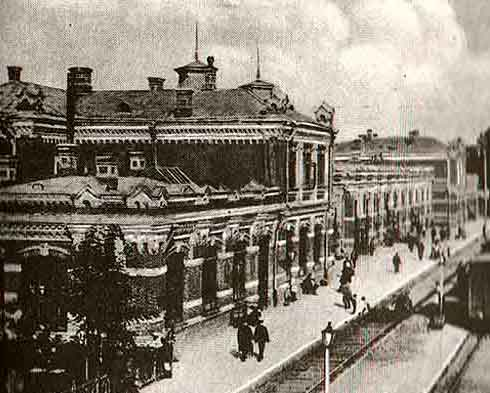 Vilenski (Libavo-Romienski) railway station in Miensk (now Minsk, Belarus). Built in 1871-1874. Now there is a station Minsk-Passazhirsky there.